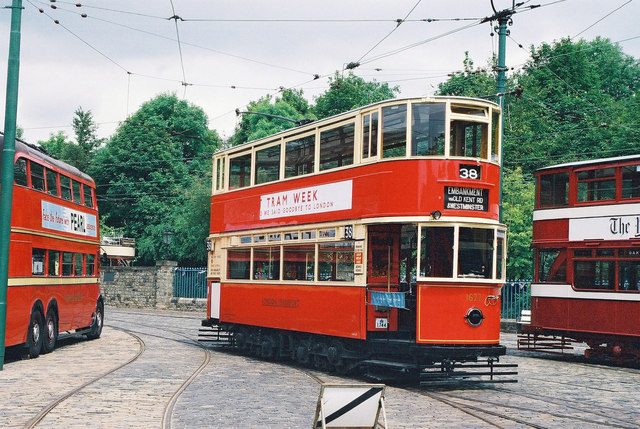 London's Last Tram. On 7 July 1952, the last street trams operated in London - or so everyone thought. (But after a short interval of just under 48 years, there were some new ones in Croydon). Also visible in this photograph taken at Crich Tramway Village are a London trolleybus and a Leeds tram.